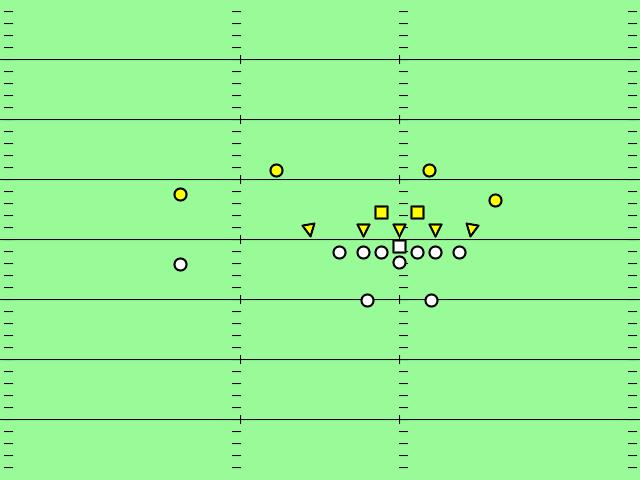 5-2-4 Oklahoma defense, versus a split T typical of early 1950s football. Linebacker drops are typical for early 1950s football, and modeled after images of 1952 Oklahoma versus Notre Dame.